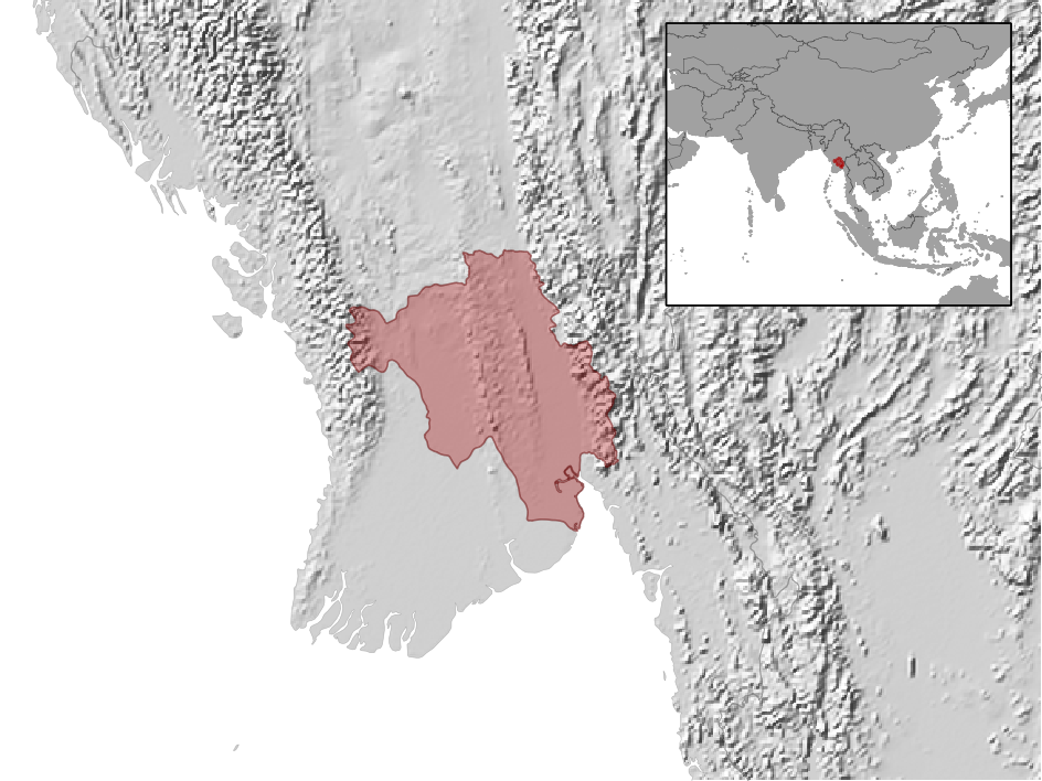 geographic distribution of Lygosoma anguinum